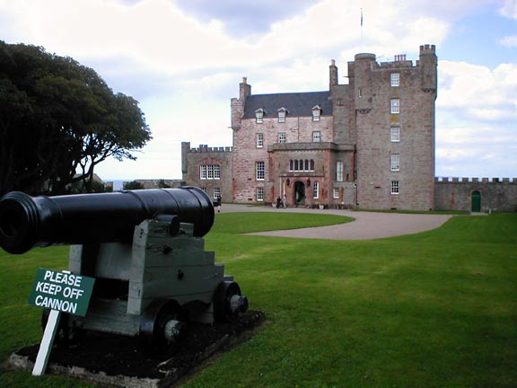 Castle of Mey